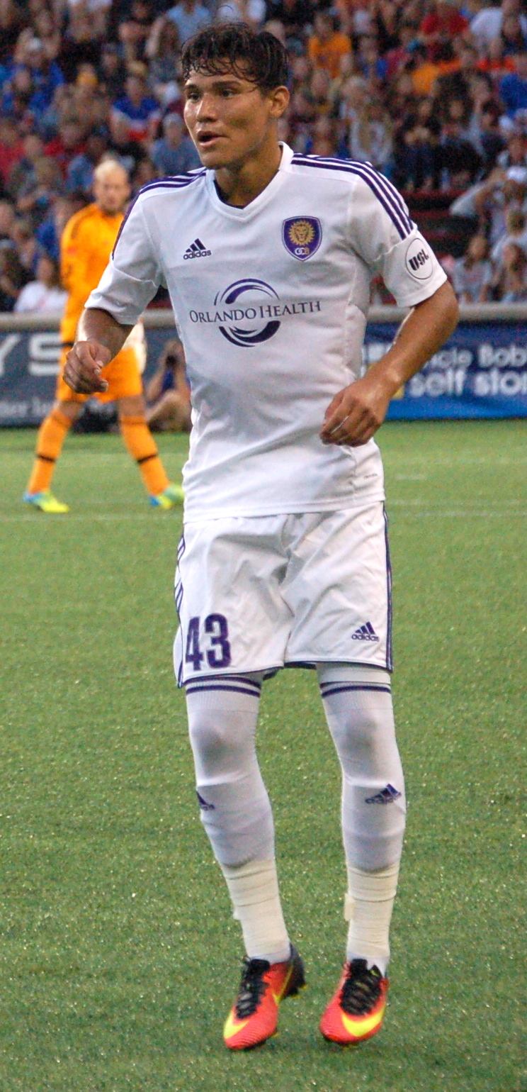 Andrew Wiedeman, Pierre da Silva Taken during USL regular season match between FC Cincinnati and Orlando City B at Nippert Stadium in Cincinnati, USA on September 17, 2016.